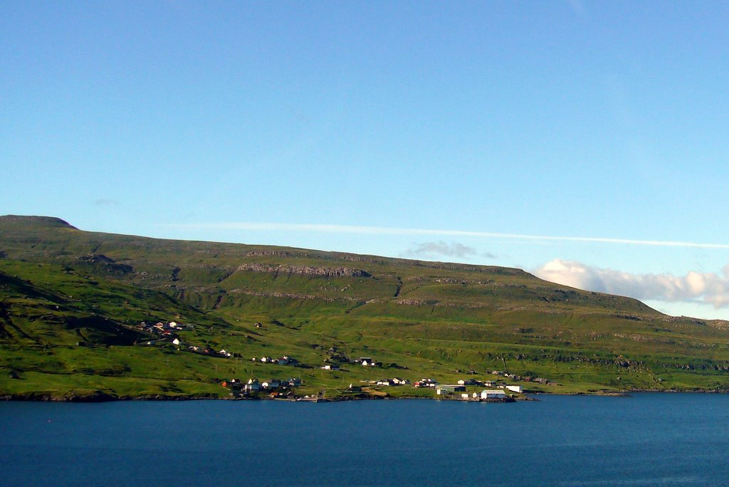 The settlement of Kaldbak in the Faroe Islands, southern view.